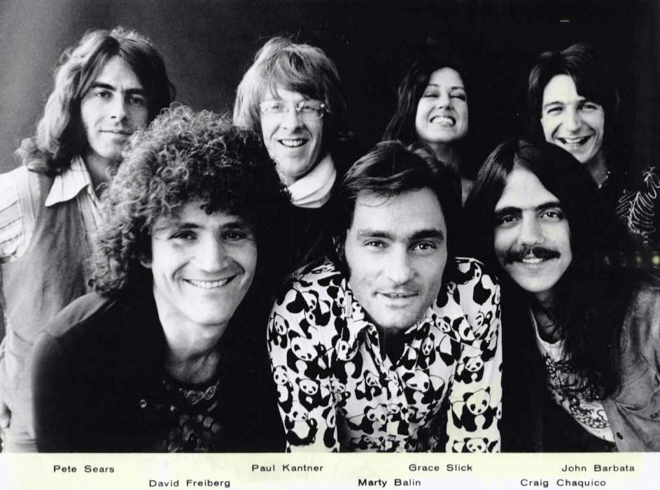 Photo of Jefferson Starship in 1976. From Left to Right: Back Row: Pete Sears, Paul Kanter, Grace Slick, John Barbata. Front row: David Freiberg, Marty Balin, Craig Chaquico.